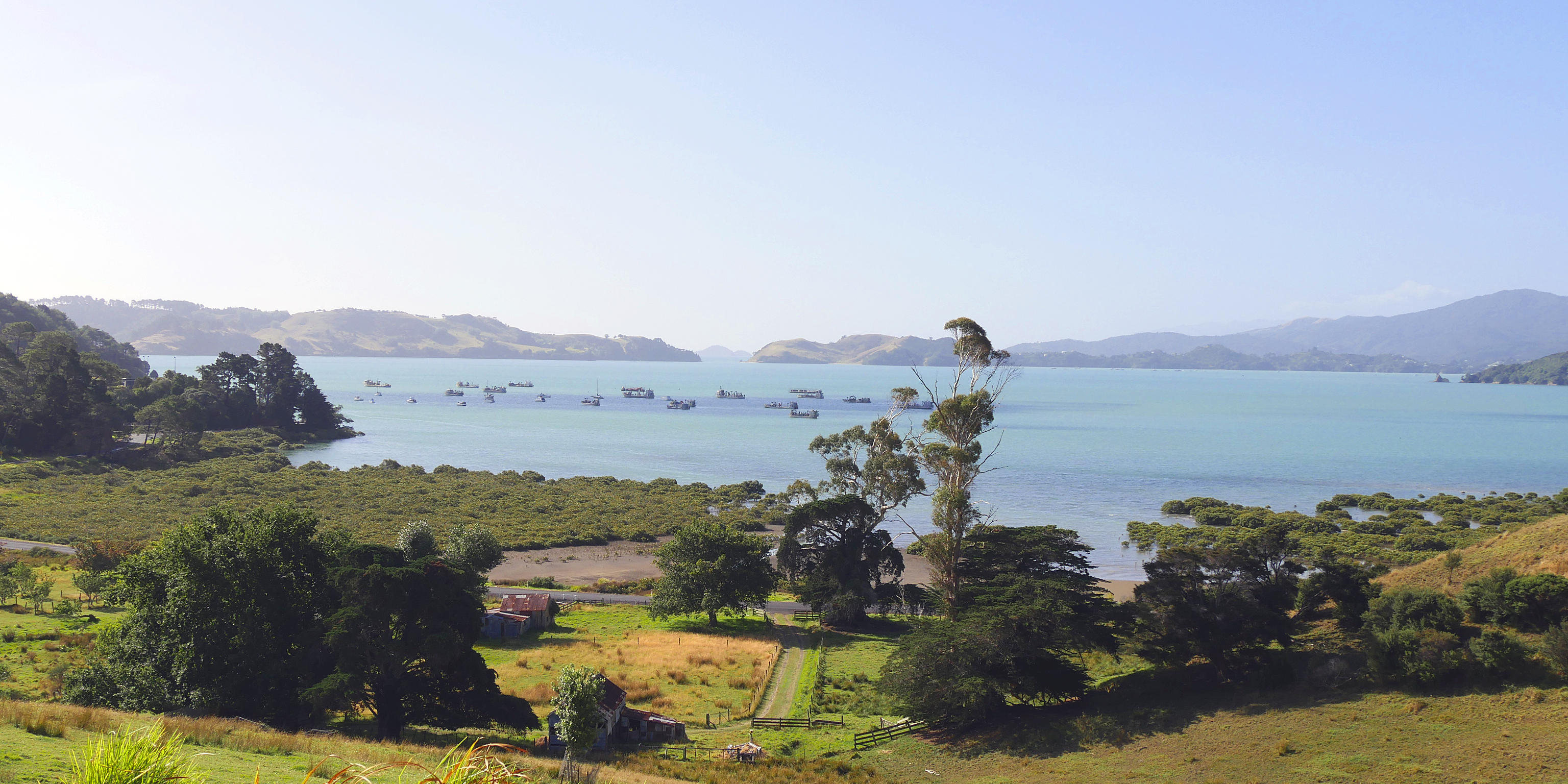 Coromandel Harbour, Coromandel Peninsula, Thames-Coromandel District, Waikato Region, North Island, New Zealand. Mid-left: Oyster farming; left horizon: Whanganui Island; mid horizon: Ruffin Peninsula; right horizon: A9HW 116 m